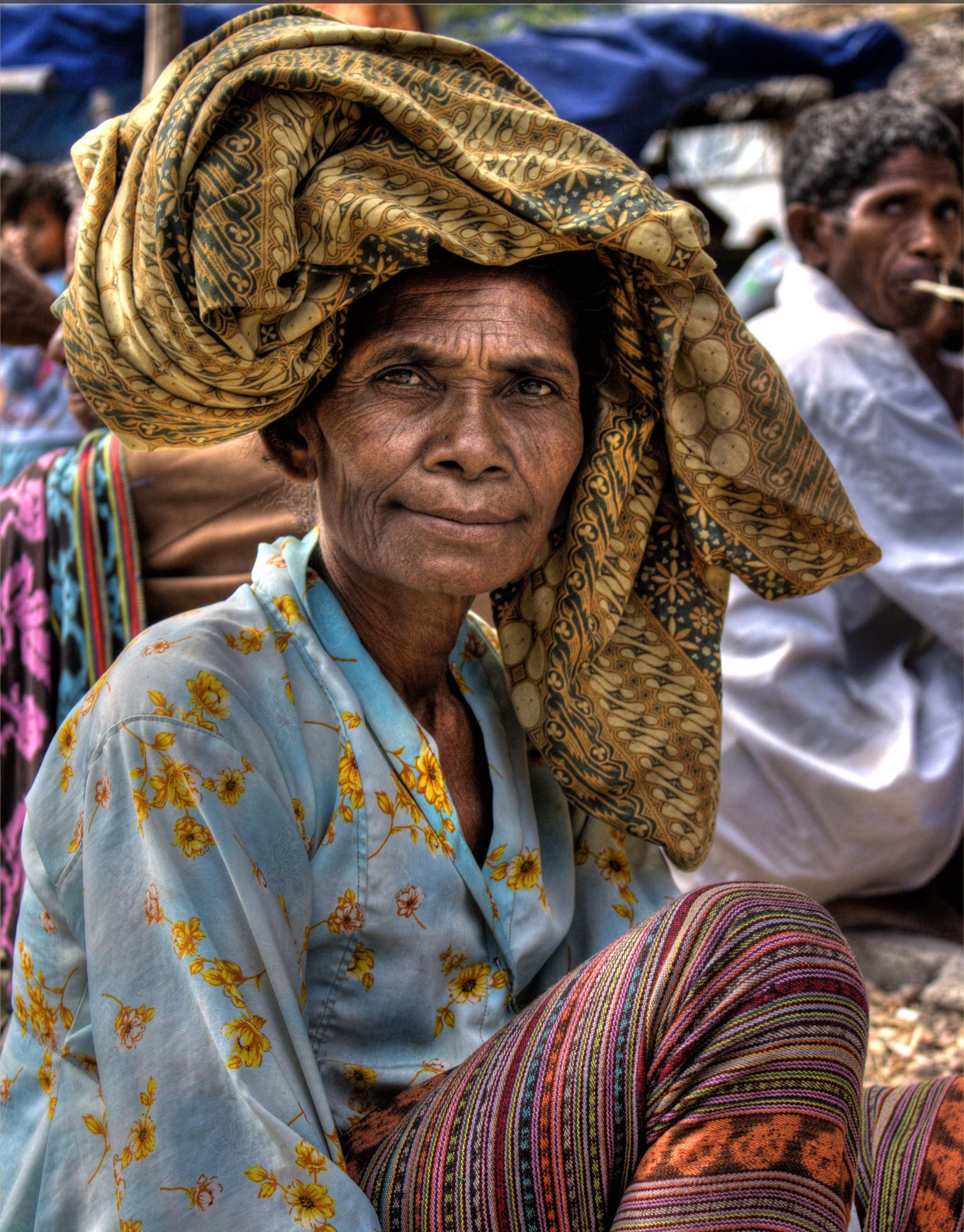 Market lady in Pante Macassar city